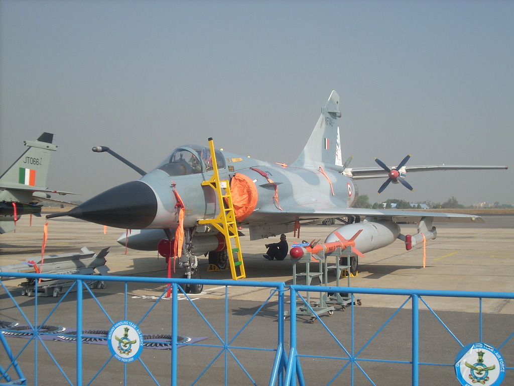 IAF Mirage 2000 at Aero India 2009.